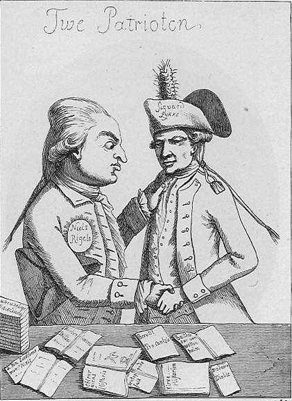 Satirical etching from 1787 showing Niels Ditlev Riegels (left) and Sigvard Lykke (right).